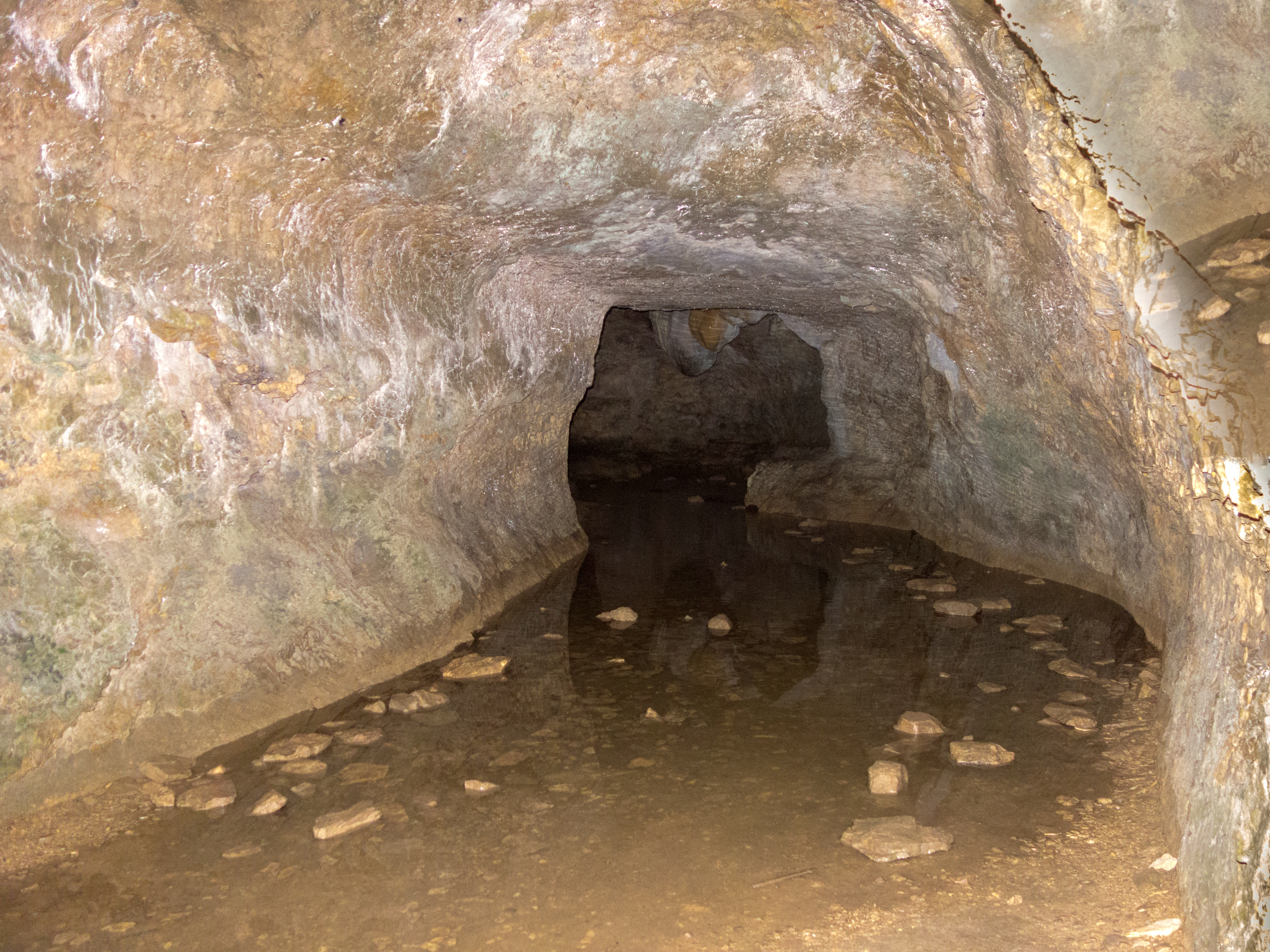 A cave near St. Hymetière, Jura, which contains a shaped beef natural stalagmite dome